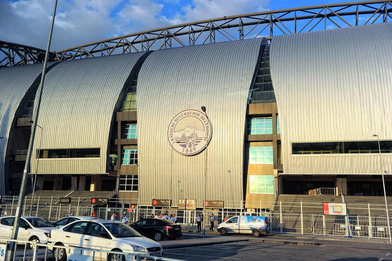 Kadir Has Stadium in Kayseri, Turkey